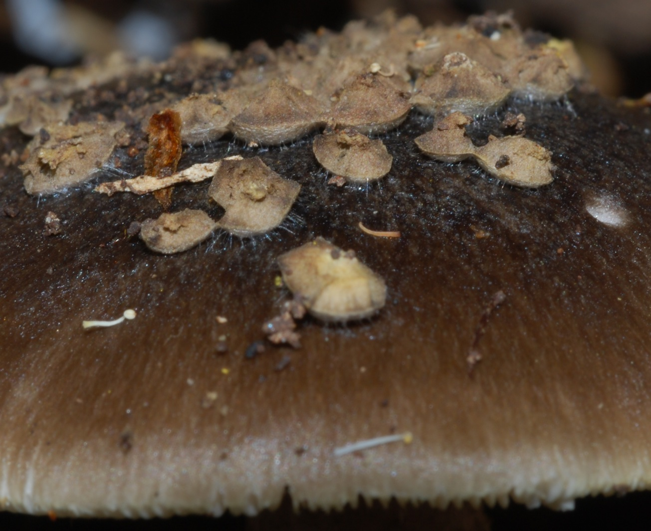 Amanita nothofagi G. Stev. Location: Auckland, New Zealand Observation Notes: A very common Amanita species found in association with Leptospermum scoparium and Kunzea ericioides, belonging in section Validae. For more information about this, see the observation page at Mushroom Observer.